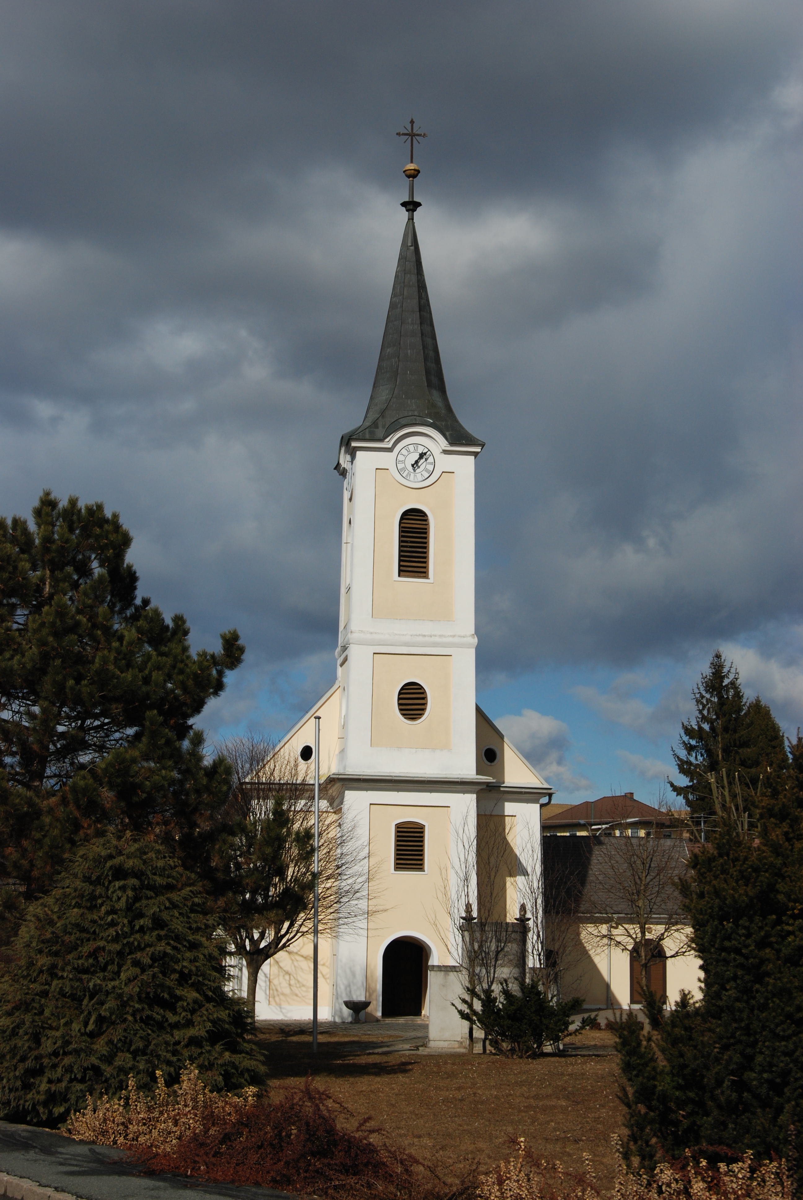 Kirche Heugraben